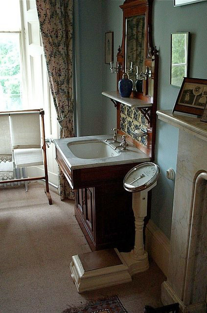 Bathroom Sink and Scales Brodick Castle